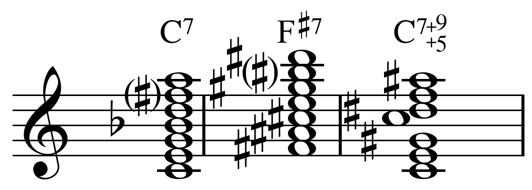 Tritone substitution and altered chord as, "nearly identical". Chords: C7, F♯7, and C7 +9 +5. Created by Hyacinth (talk) 19:26, 13 December 2010 using Sibelius 5.